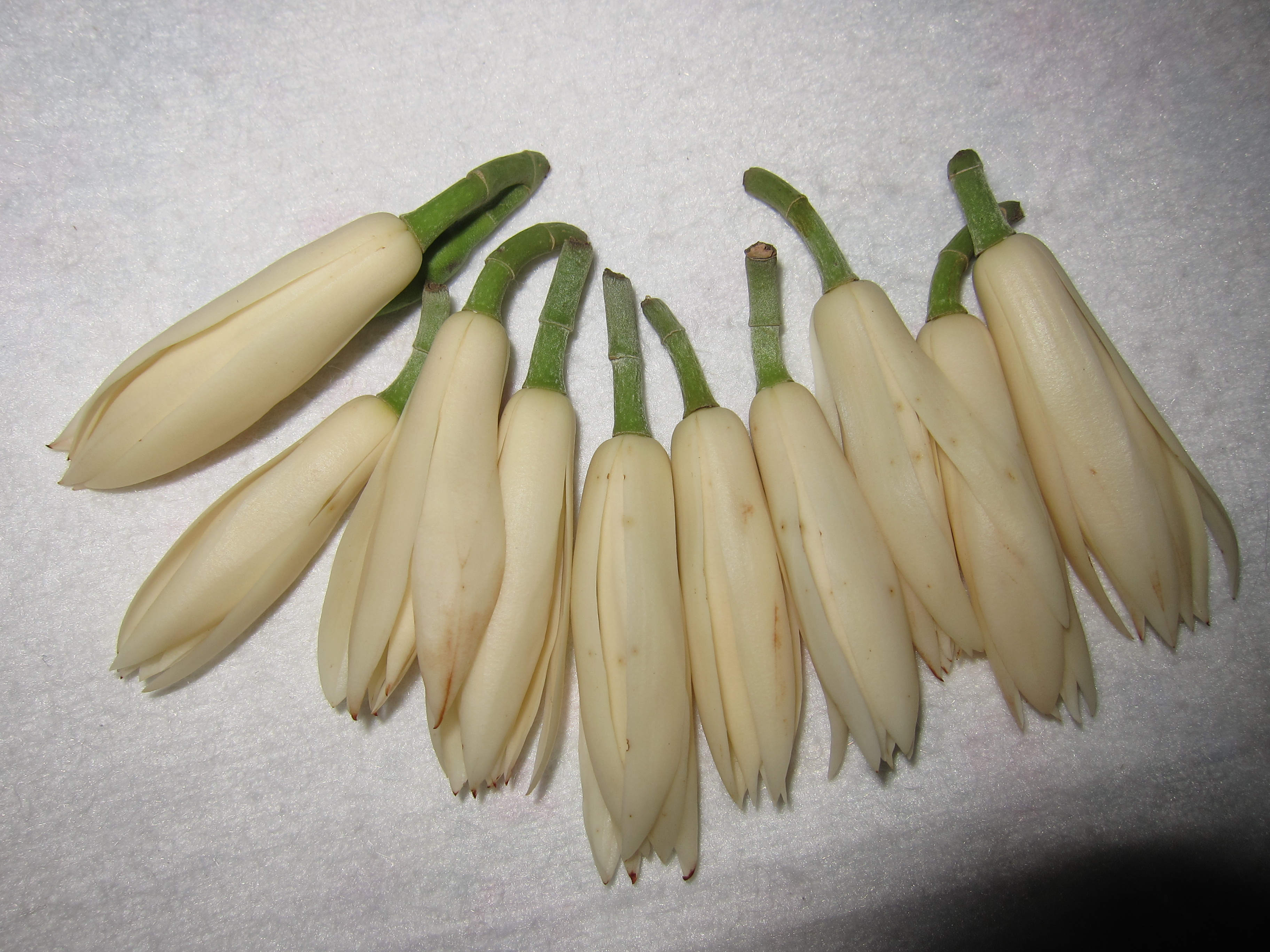 Champak (Champa) Michelia champaca